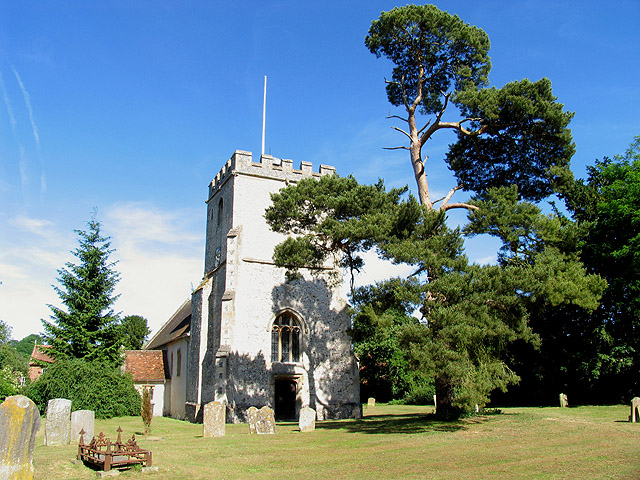 St Mary the Virgin parish church, Hampstead Norreys, Berkshire, seen from the west